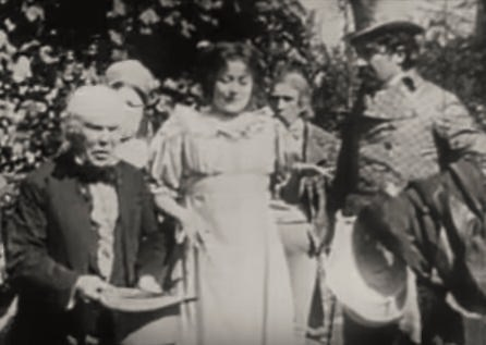 Left to right: William Shea, Helen Gardner, and Harry Northrup in the American film Vanity Fair (1911) - cropped screenshot.